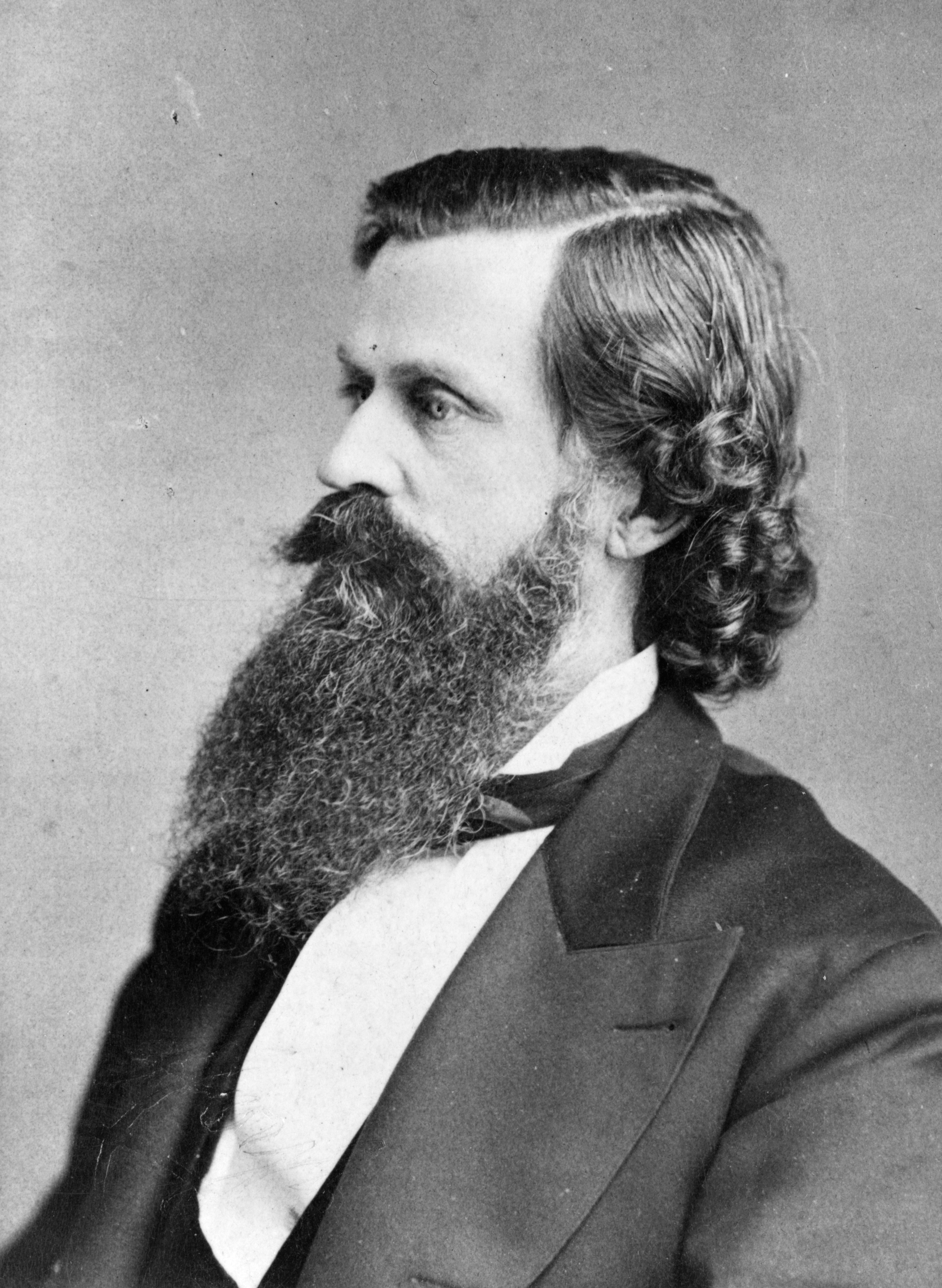 Henry R. Harris, U.S. Congressman from Georgia